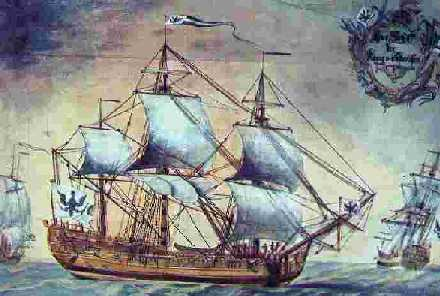 fregate Koenig von OPreussen built in London in 1750 for the king of Prussia